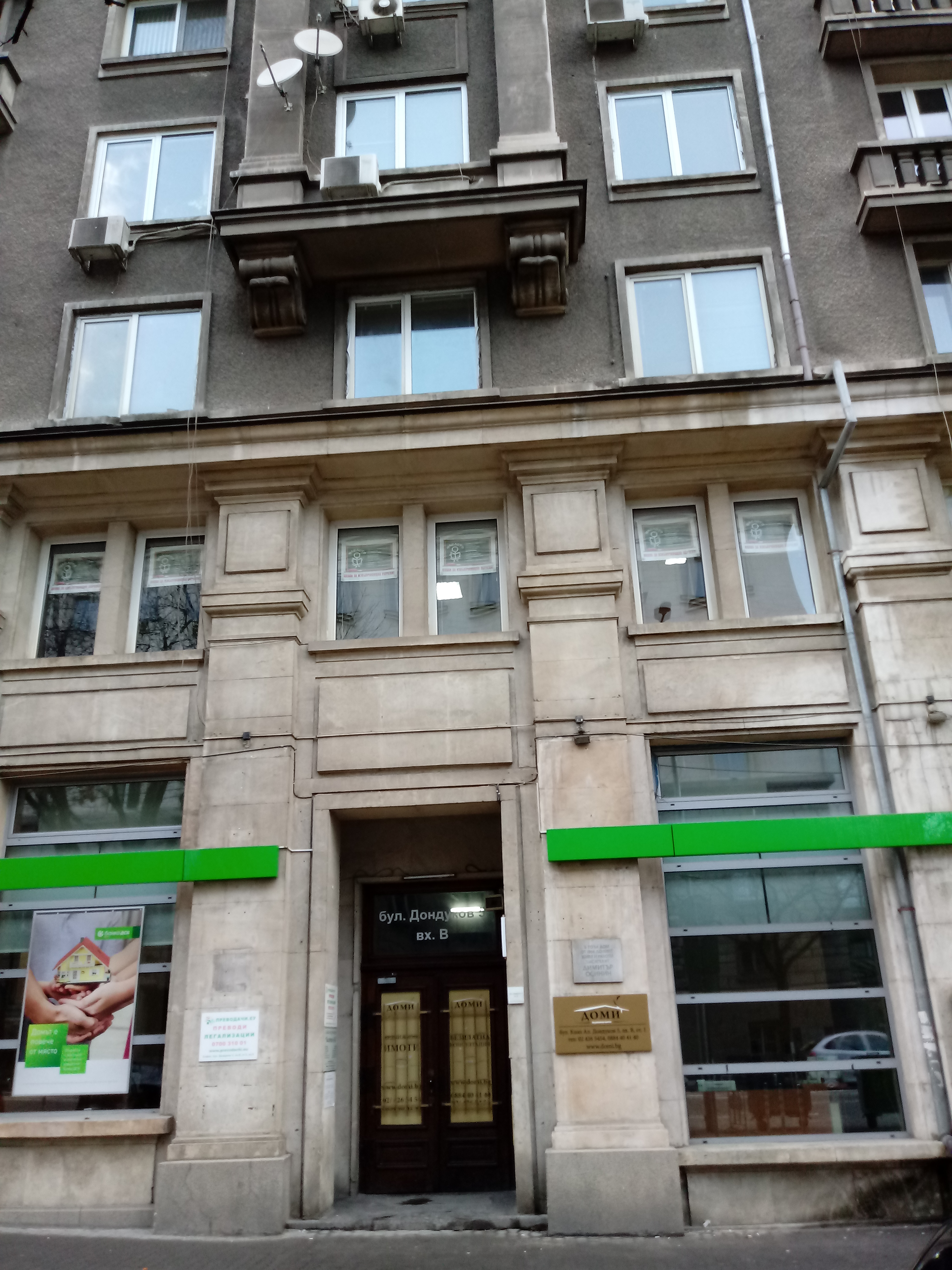 Dimitar Osinin home with memorial plaque, 5V Dondukov Blvd. Sofia